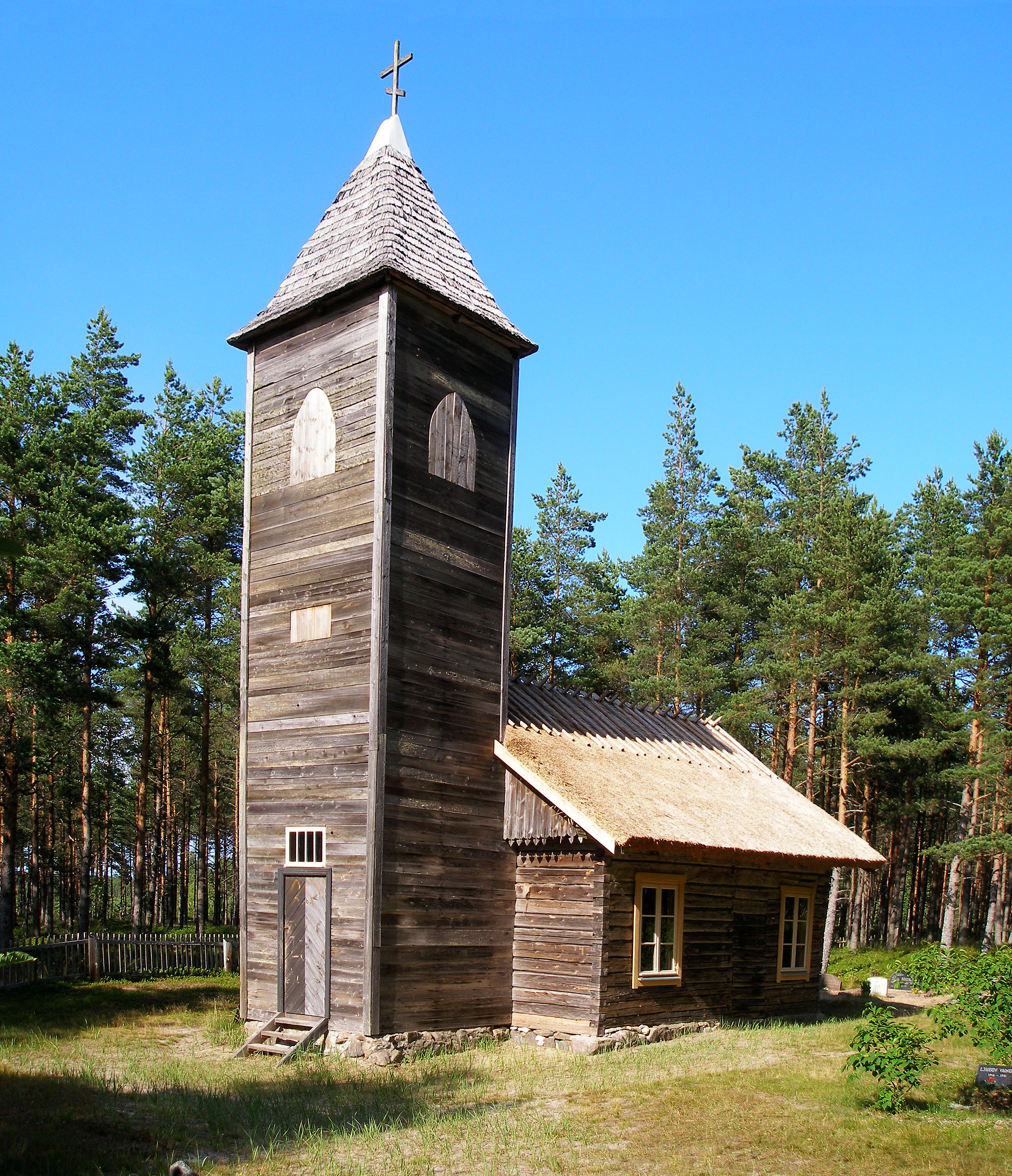 A small wooden chapel in Malvaste, Hiiumaa, Estonia.